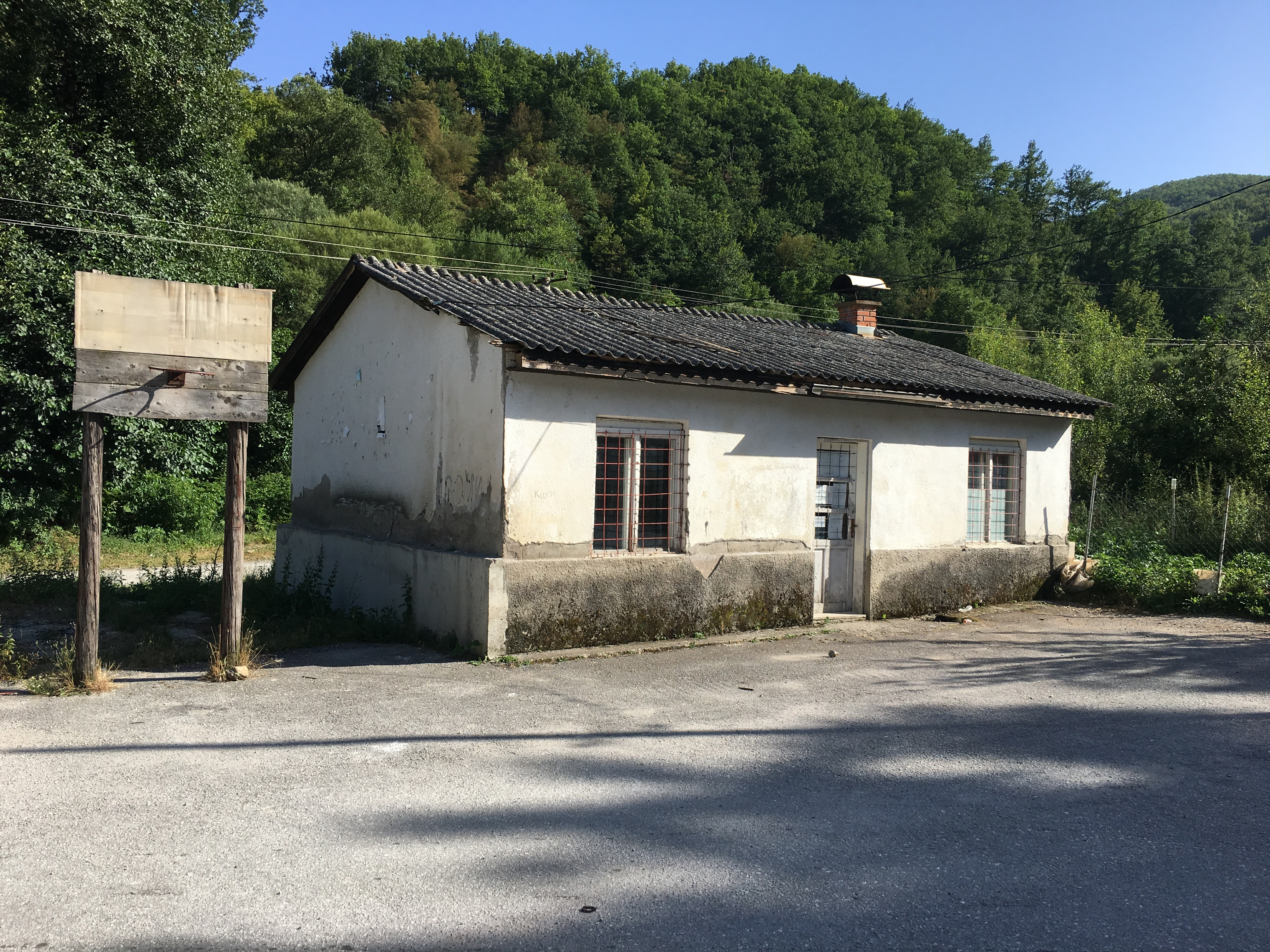 Building in the village of Piskupština